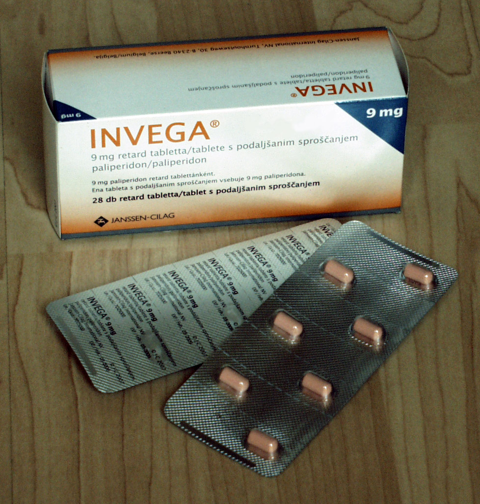 Invega retard tablets